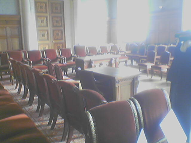 The Court of Audit of France (Cour des Comptes), one of the audience rooms.